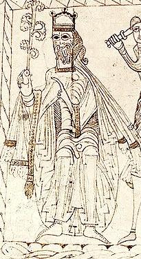 Privilegium Imperatoris Alfonso VII of Castile and Leon, cropped from his Privilegium Imperatoris